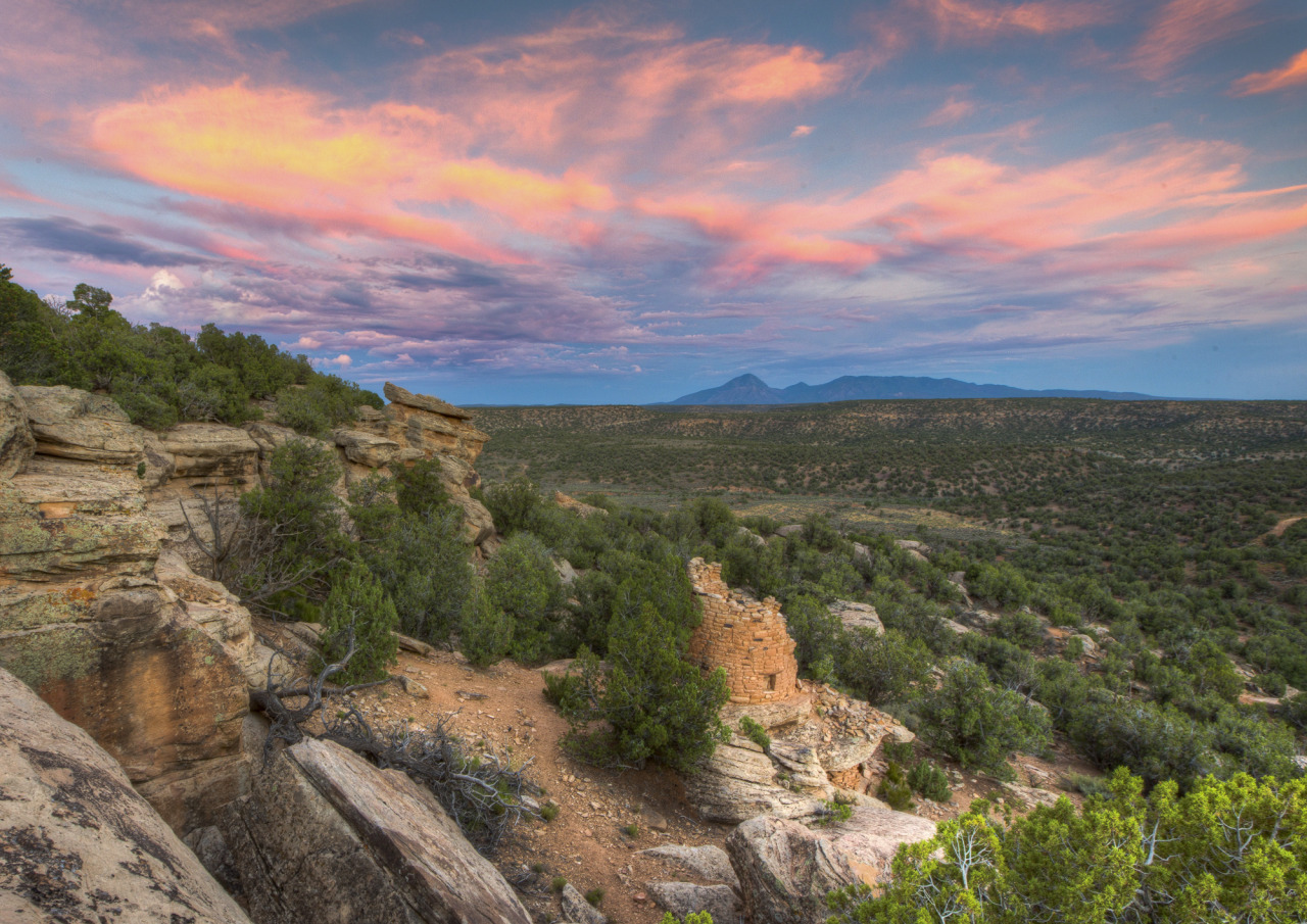 Ruined tower, Canyons of the Ancients National Monument, BLM Colorado. Hovenweep style Painted Hand Pueblo, Great Pueblo period: AD 1100 to 1300